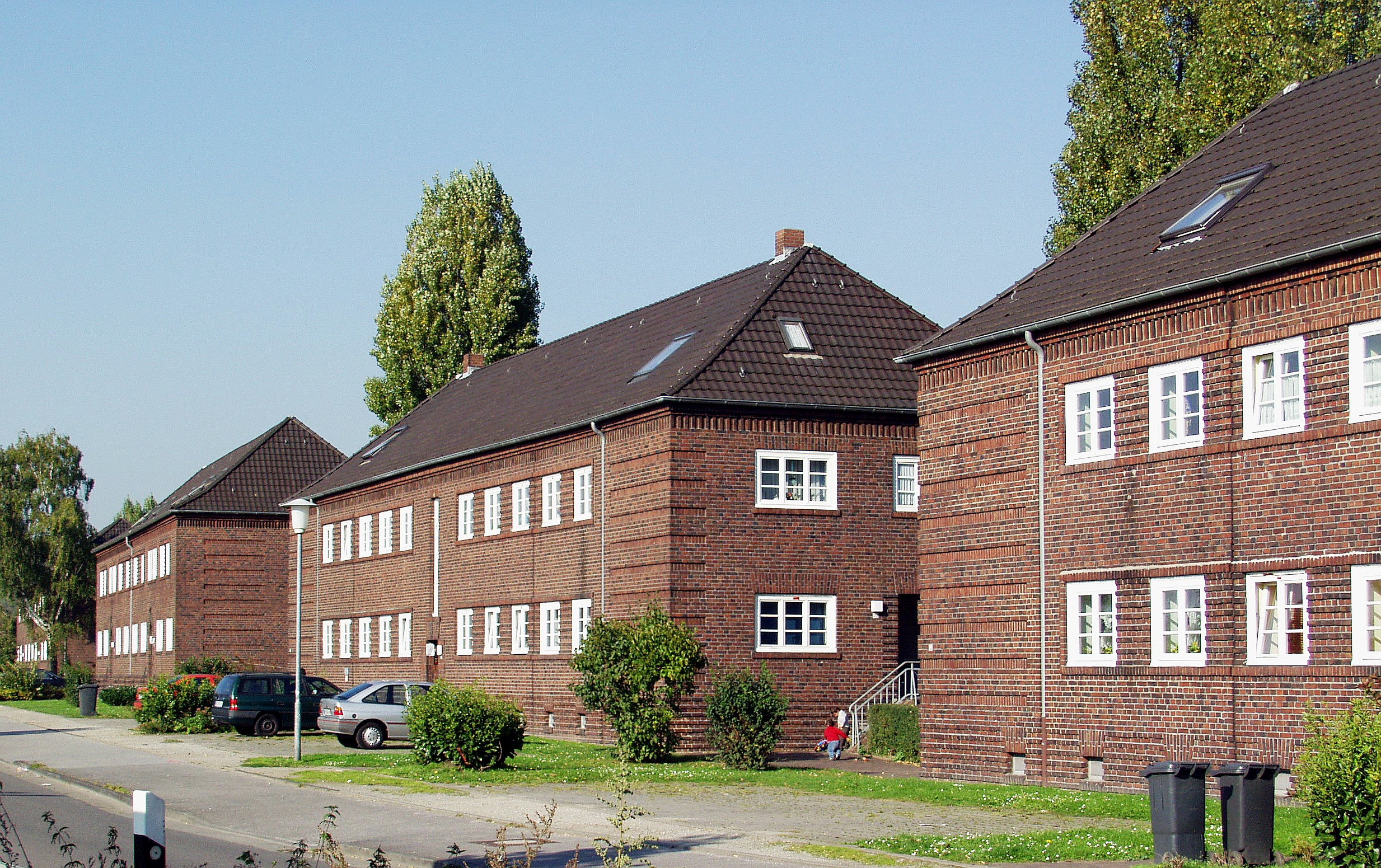 Mining colony "Repelen" in Moers, Germany